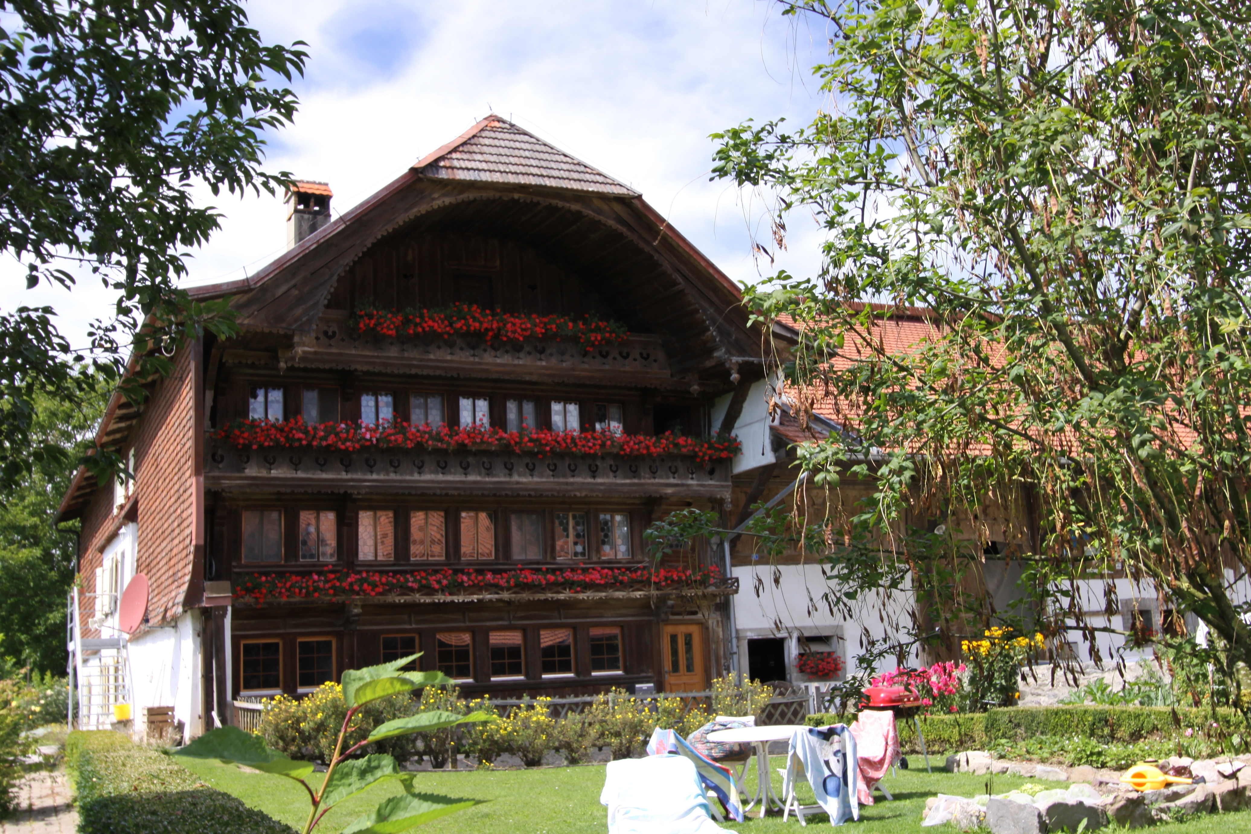 Farmhouse, Route d'Invau 51, Invau (Ursy)